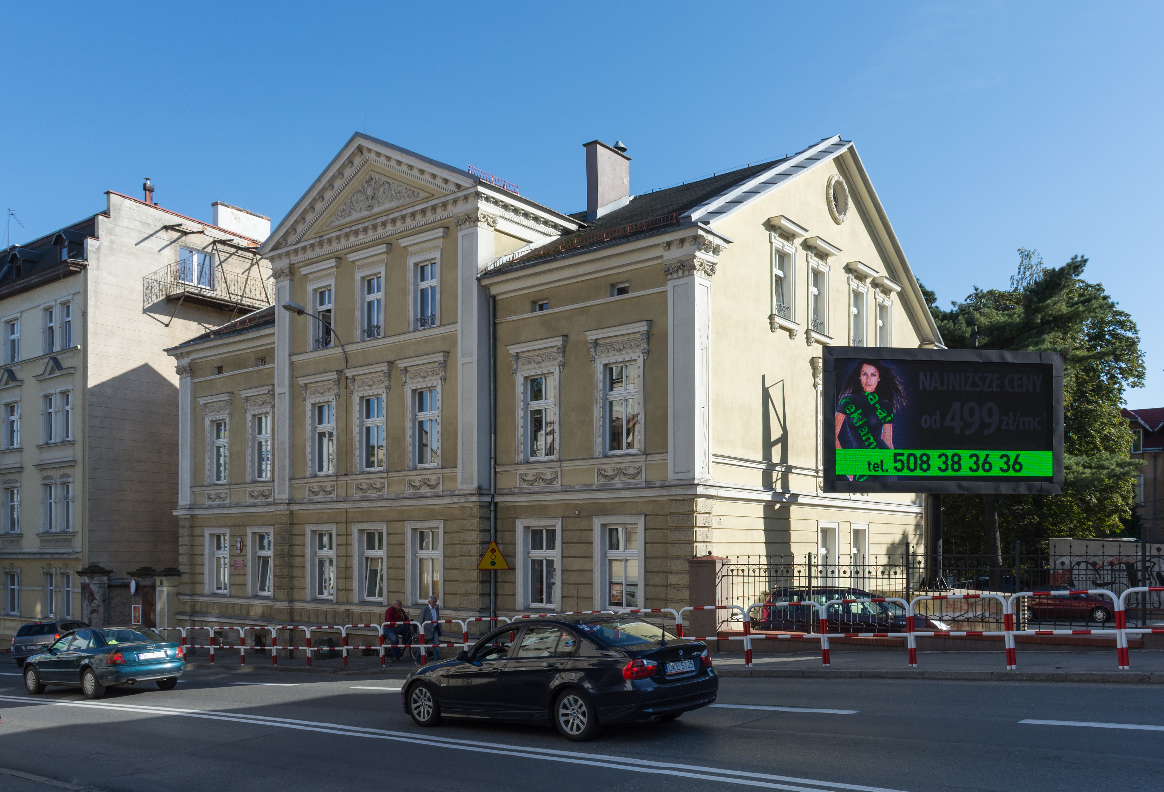 State School of Music in Kłodzko